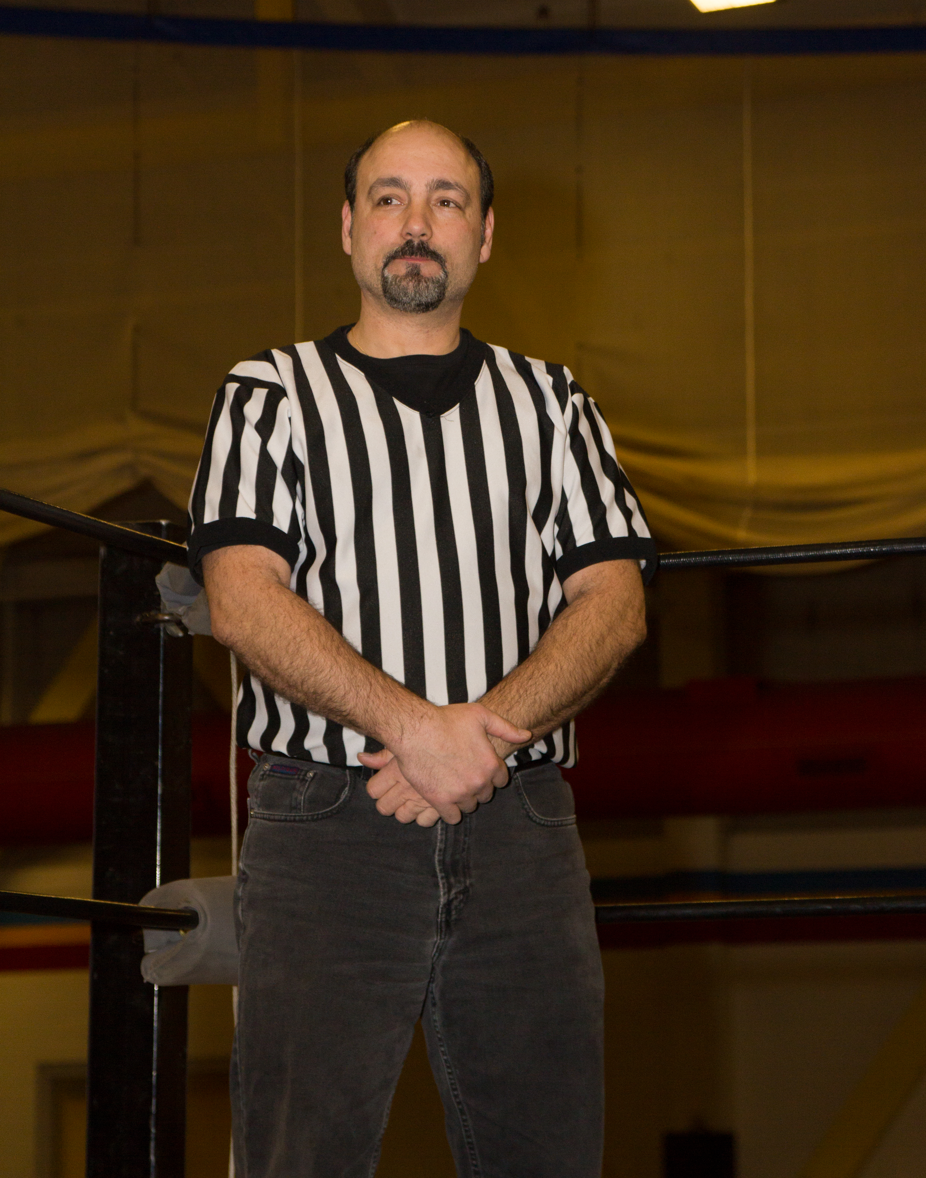 Former WWE referee Jim "Jimmy" Korderas prior to refereeing a match at a Squared Circle Wrestling show at the Variety Village in Toronto, ON